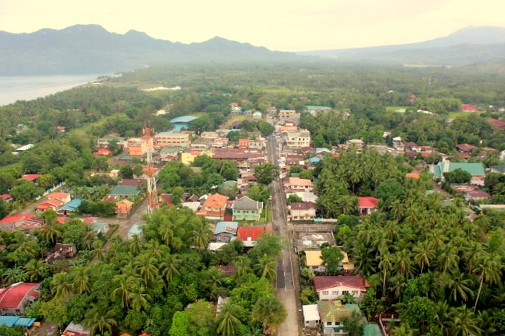 Aerial View of Hinunangan Town Proper